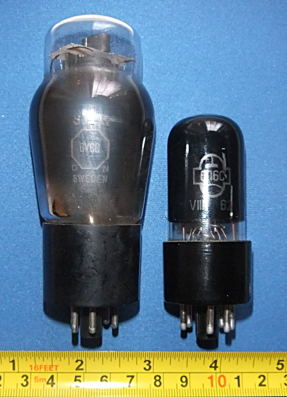 Tubes 6V6G and 6P6S (USSR made, 6V6GT equiv.)